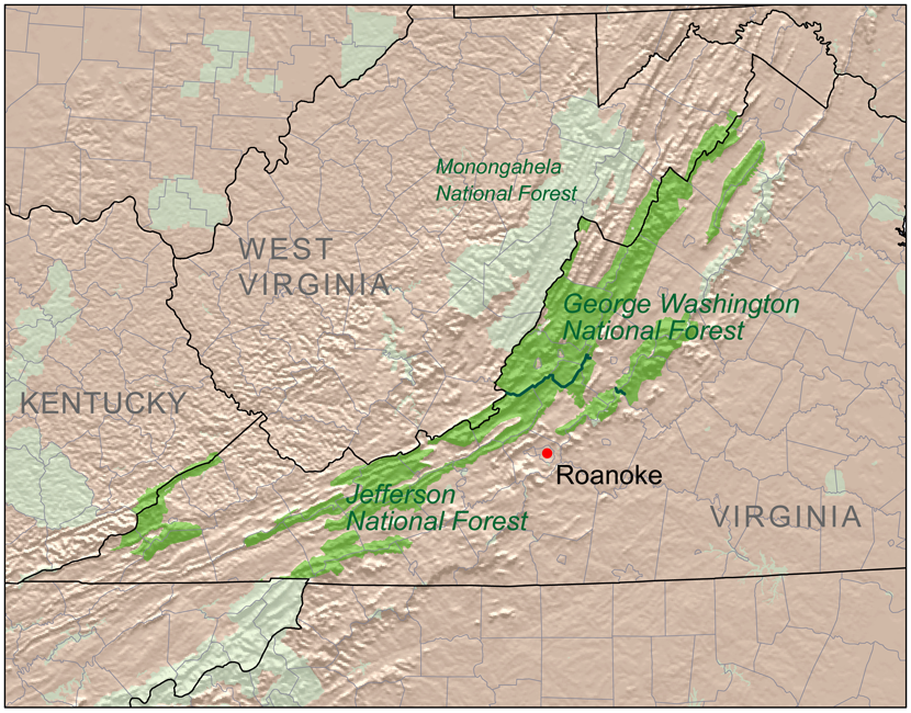 Map showing the location of the George Washington and Jefferson National Forests in Virginia, United States.